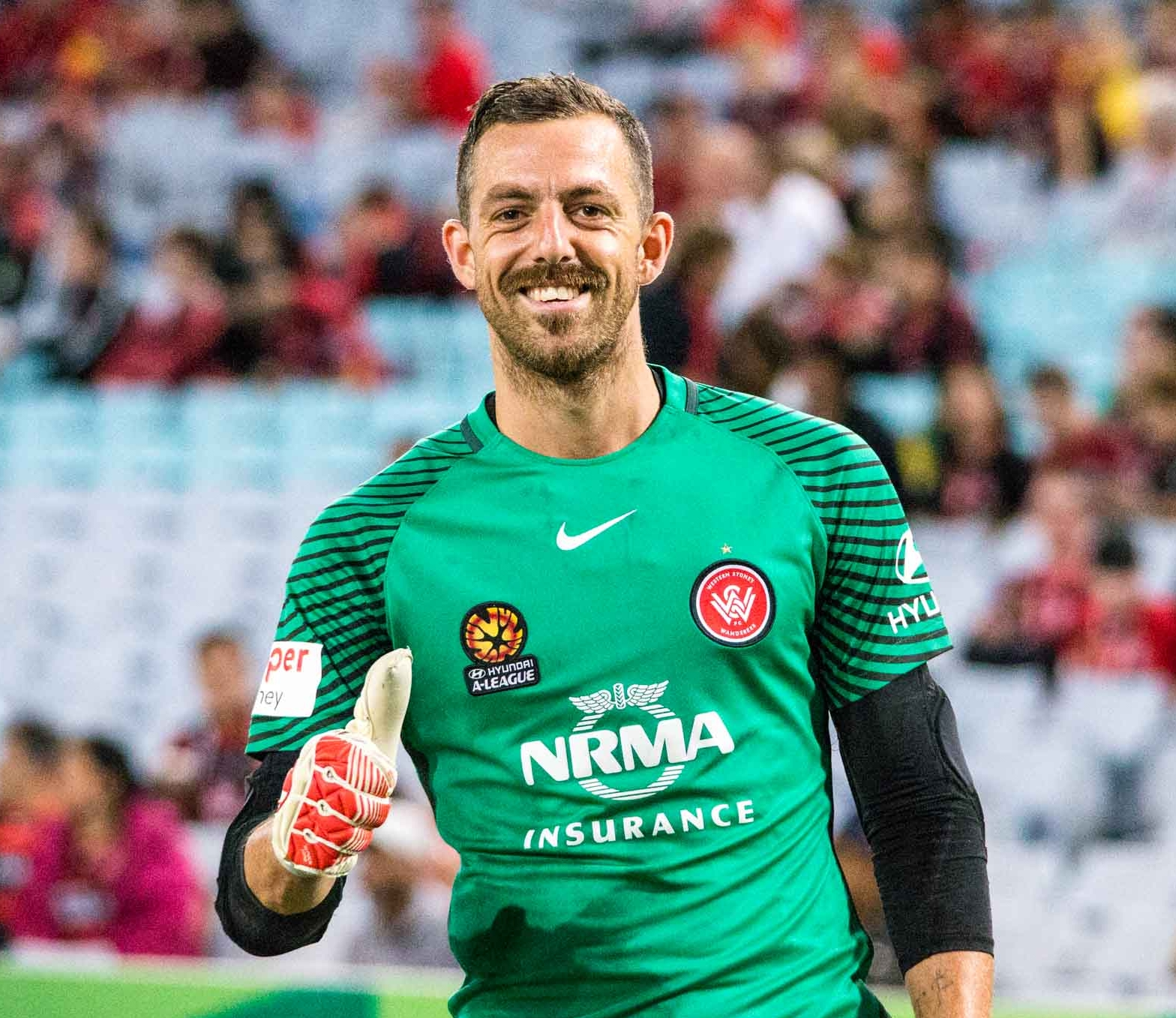 Jerrad Tyson is a legend